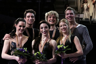 The ice dancing podium at the 2013 World Championships. From left: Tessa Virtue / Scott Moir (2nd), Meryl Davis / Charlie White(1st), Ekaterina Bobrova / Dmitri Soloviev(3rd).